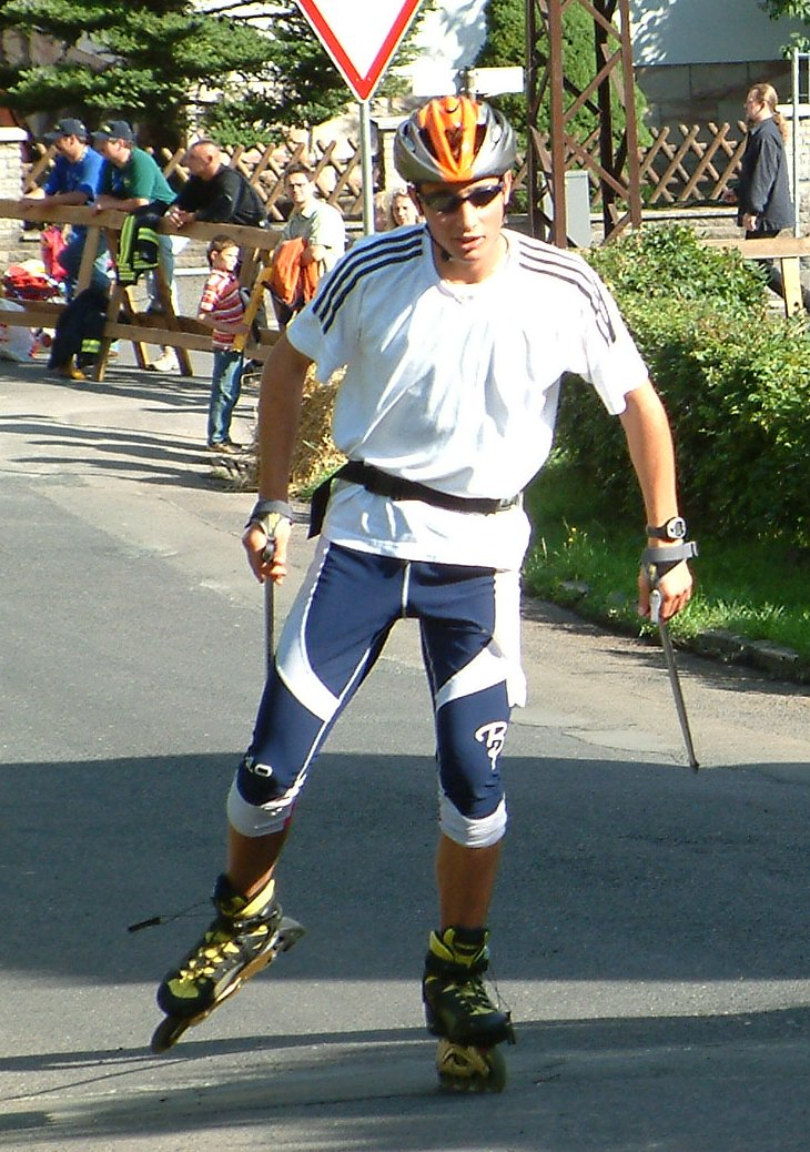 Jason Lamy Chappuis during the Sommer Gand Prix in Steinbach-Hallenberg